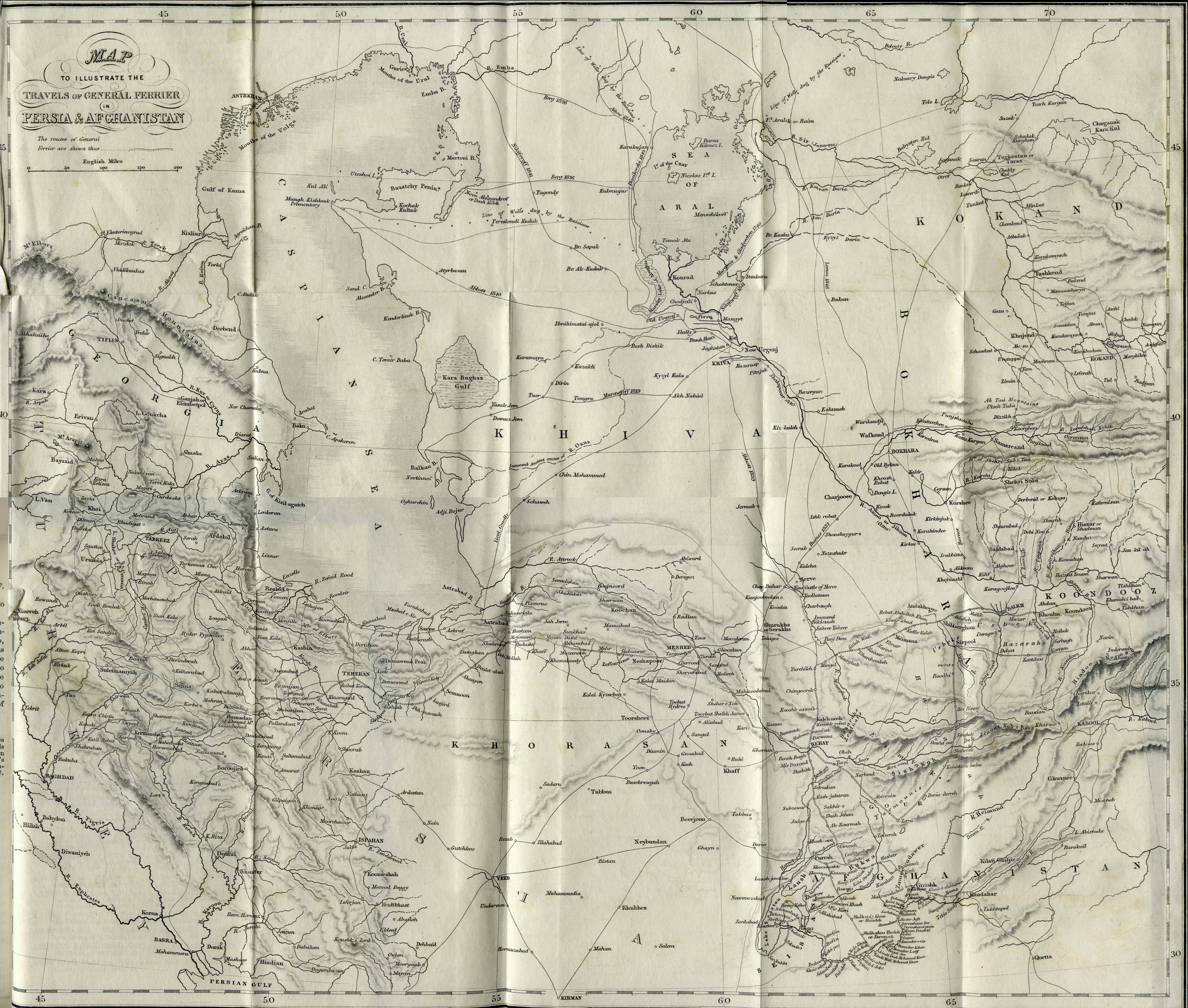 "Map to Illustrate the Travels of General Ferrier in Persia and Afghanistan" from Caravan Journeys and Wanderings in Persia, Afghanistan, Turkistan, and Beloochistan; with Historical Notices of the Countries Lying Between Russia and India by Joseph Pierre Ferrier. Second Edition 1857.